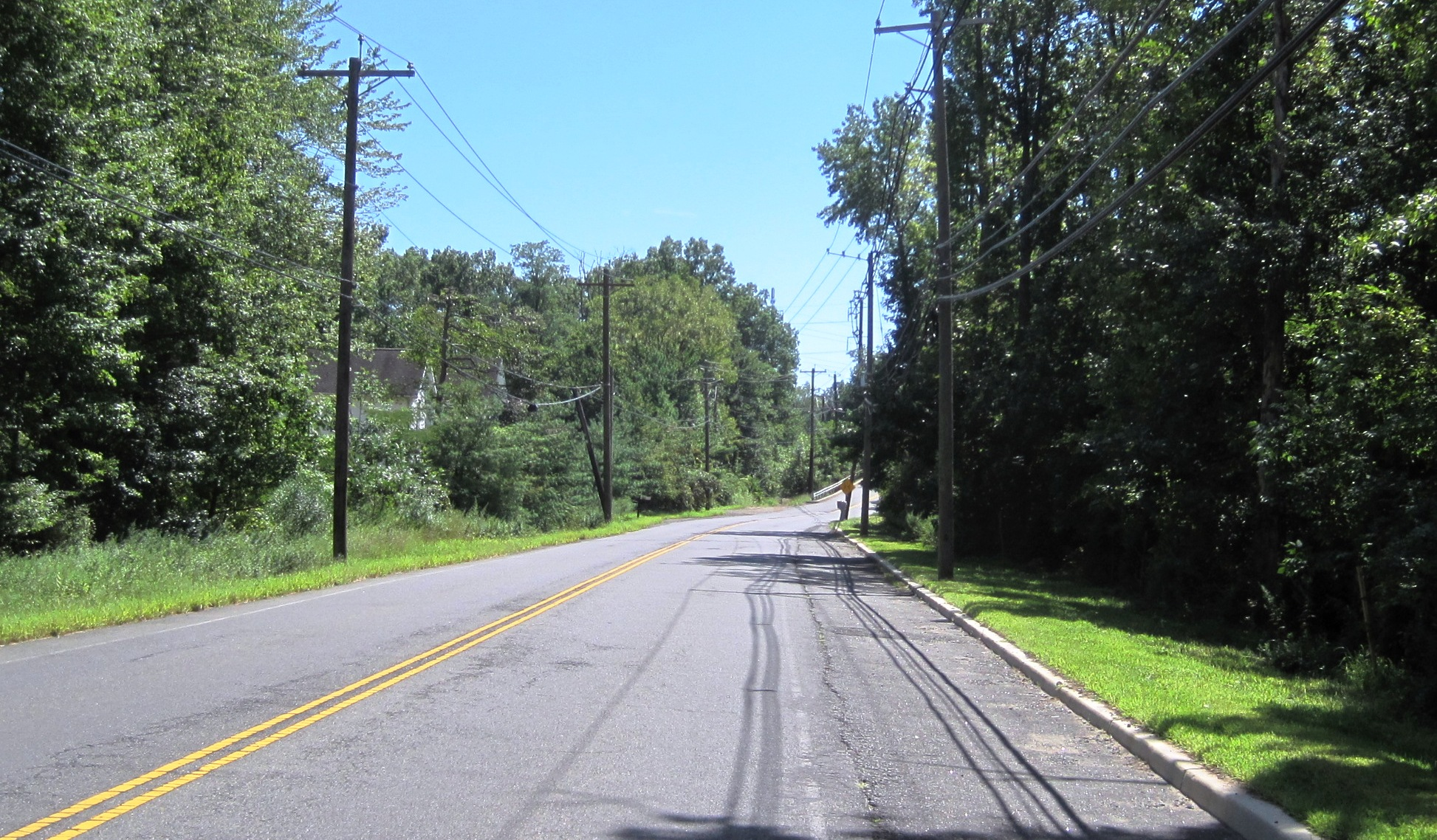 Photo of Schalks, New Jersey, an unincorporated community within Plainsboro Township. Photo taken along southbound Schalks Crossing Road (County Route 683) approaching the overpass over the Northeast Corridor.